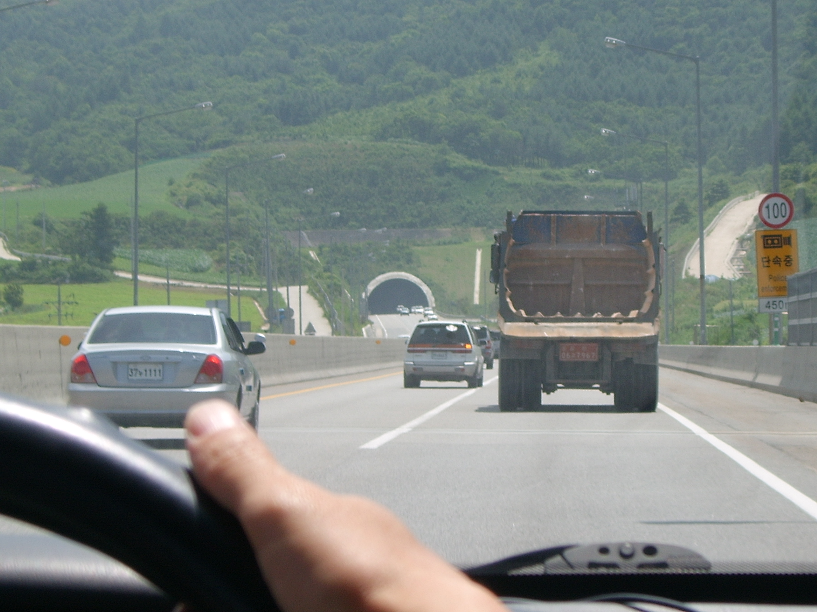 Daegwanryeong 1st tunnel(Yeongdong Expressway)